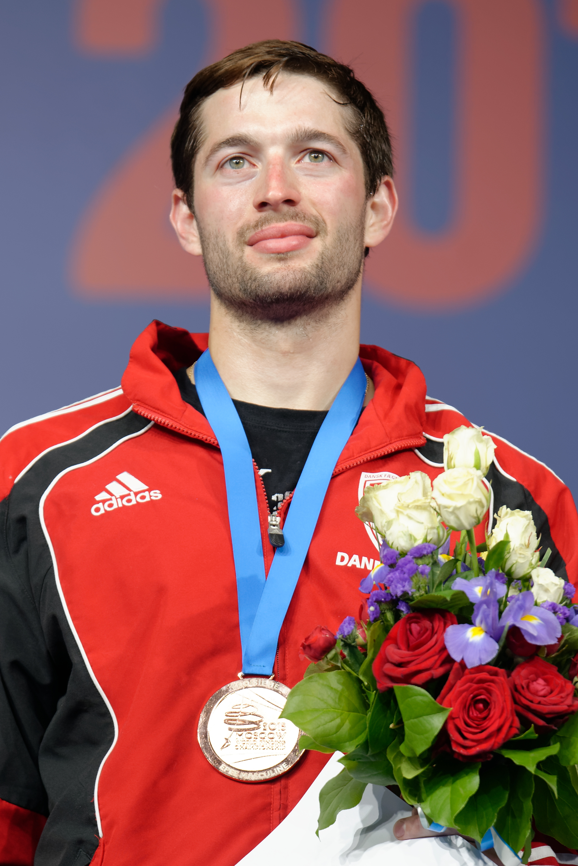 Denmark's Patrick Jørgensen at the medal ceremony of the men's épée event at the 2015 World Fencing Championships on 15 July 2014 at the Olympic Stadium in Moscow.